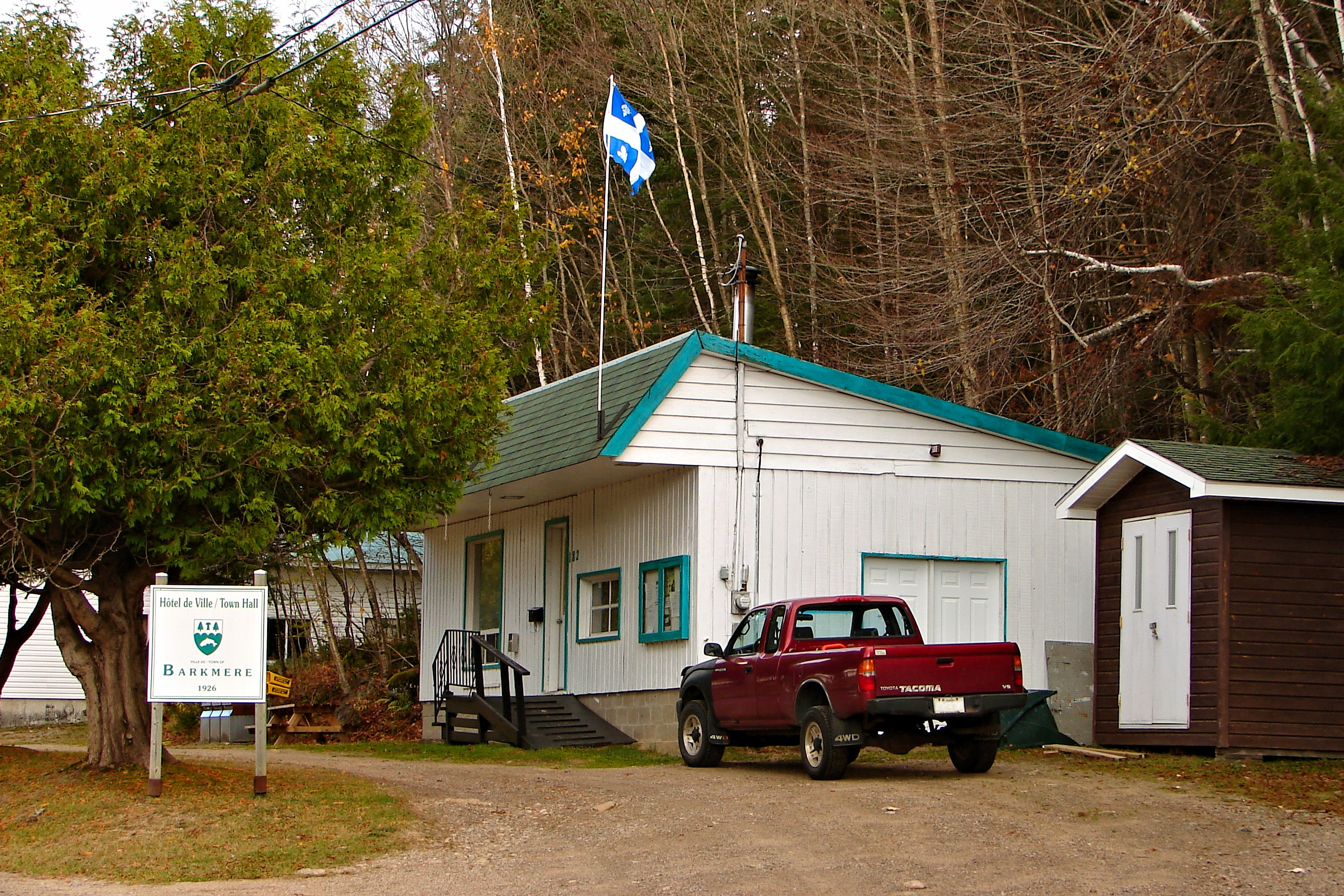 Town hall of Barkmere, Quebec, Canada